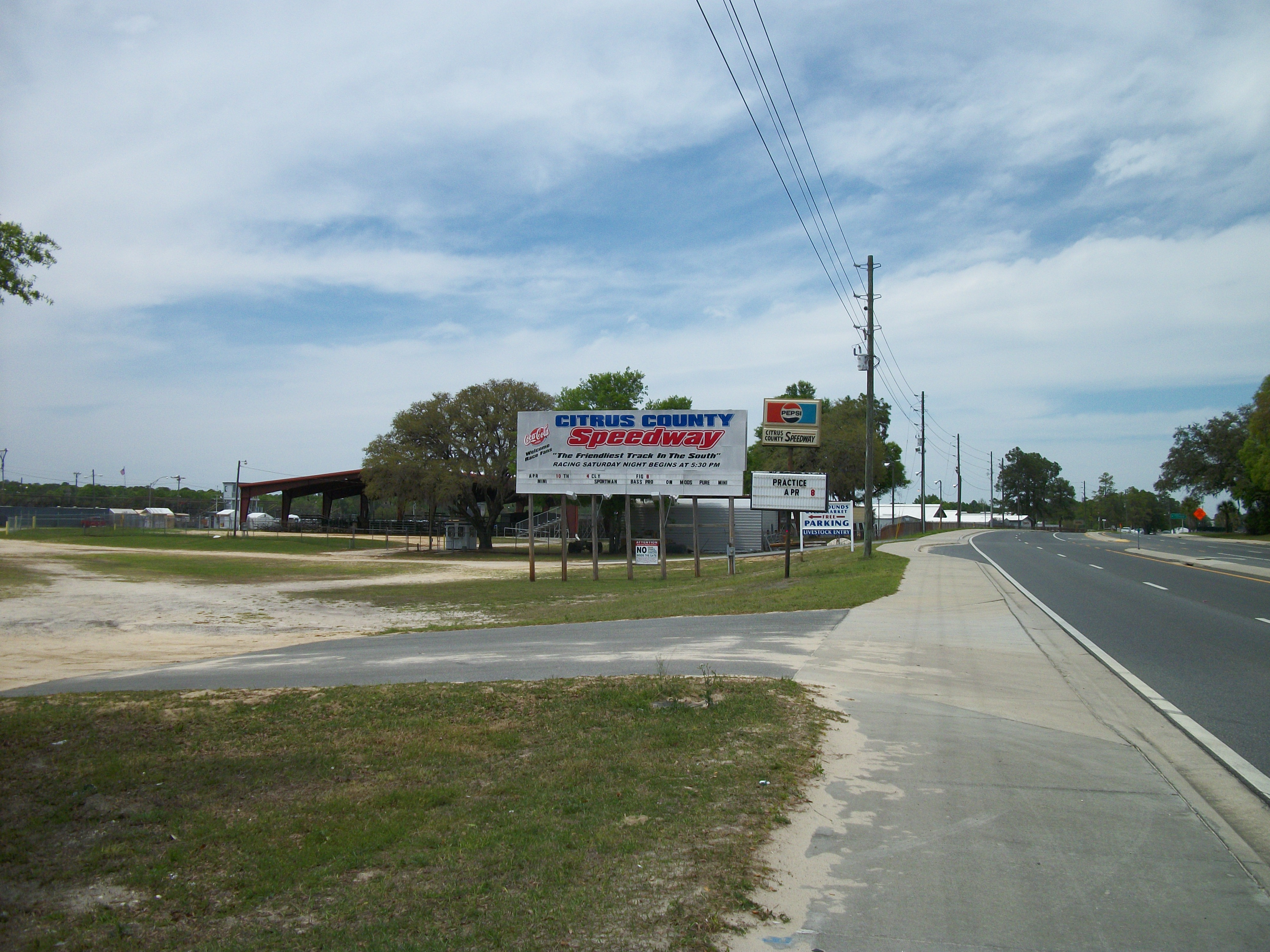 Signs for the Citrus County Speedway on U.S. Route 41 south of Inverness, Florida.